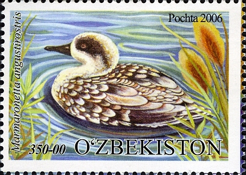 Stamps of Uzbekistan, 2006